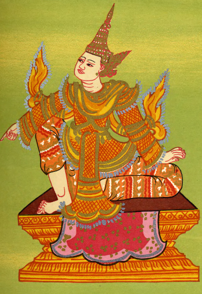 Min Sithu nat (spirit), th in the official pantheon of Burmese nats